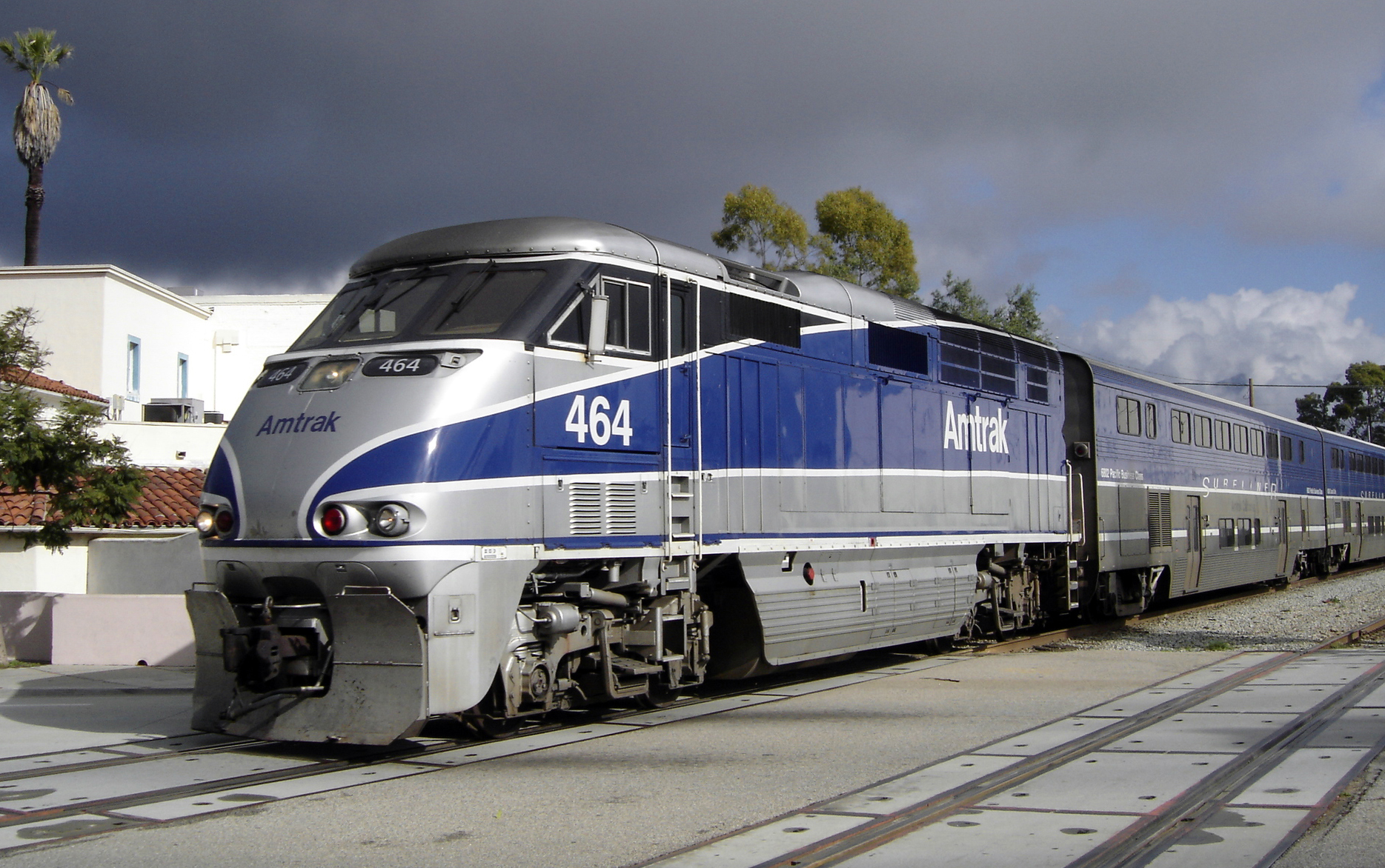 Pacific Surfliner leaving the station at Santa Barbara, CA.